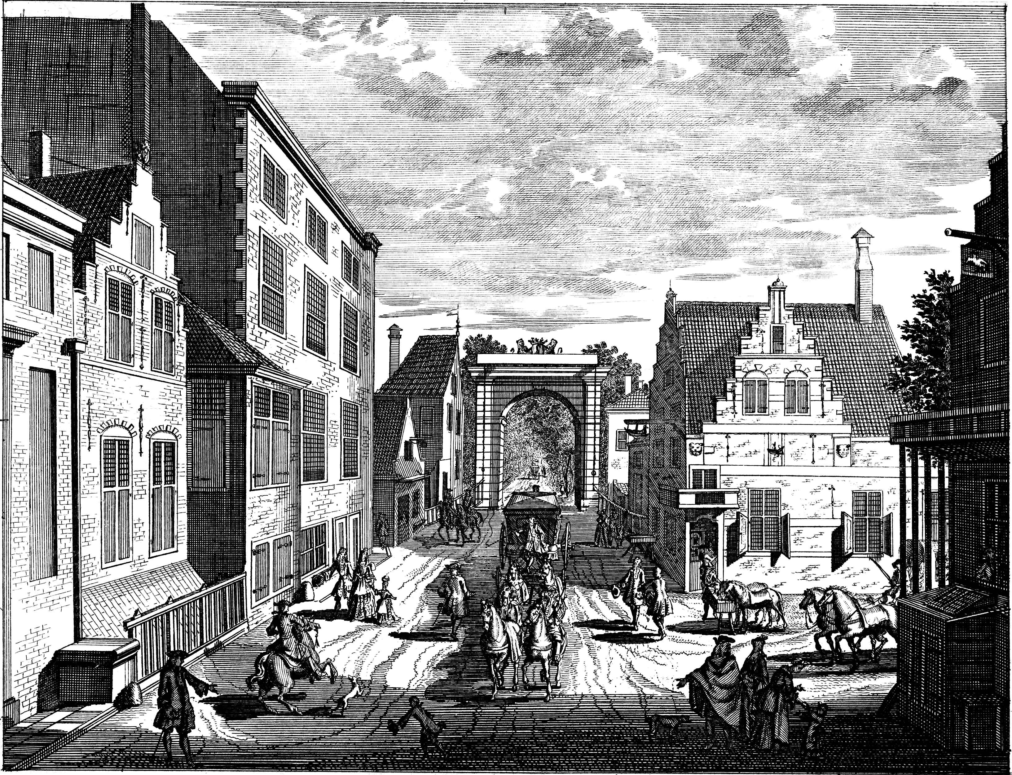 View of the Scheveningen Bridge coming from the Noordeinde in The Hague, the Netherlands. By Daniël Marot (1662-1752)